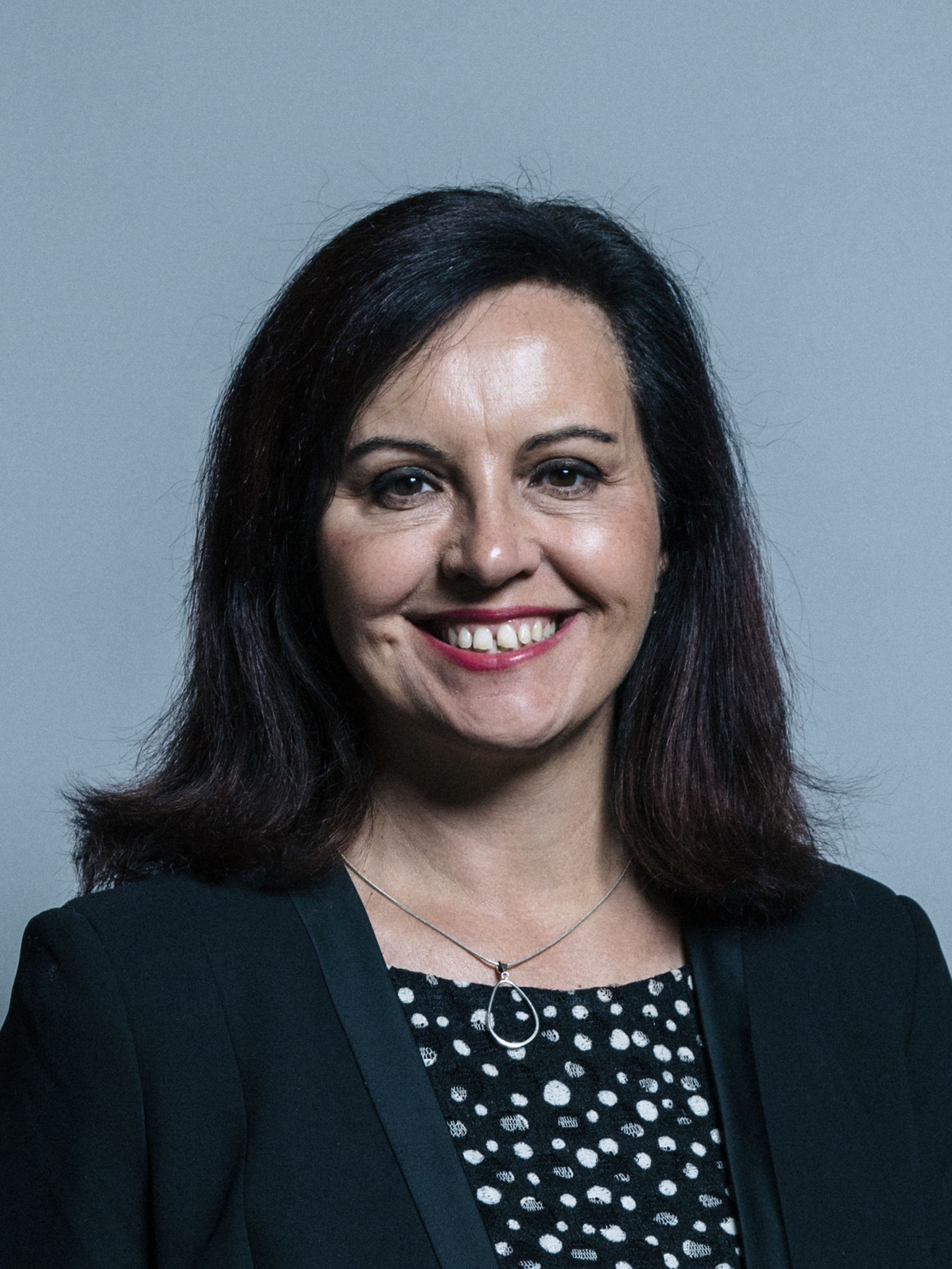 Official portrait of Caroline Flint